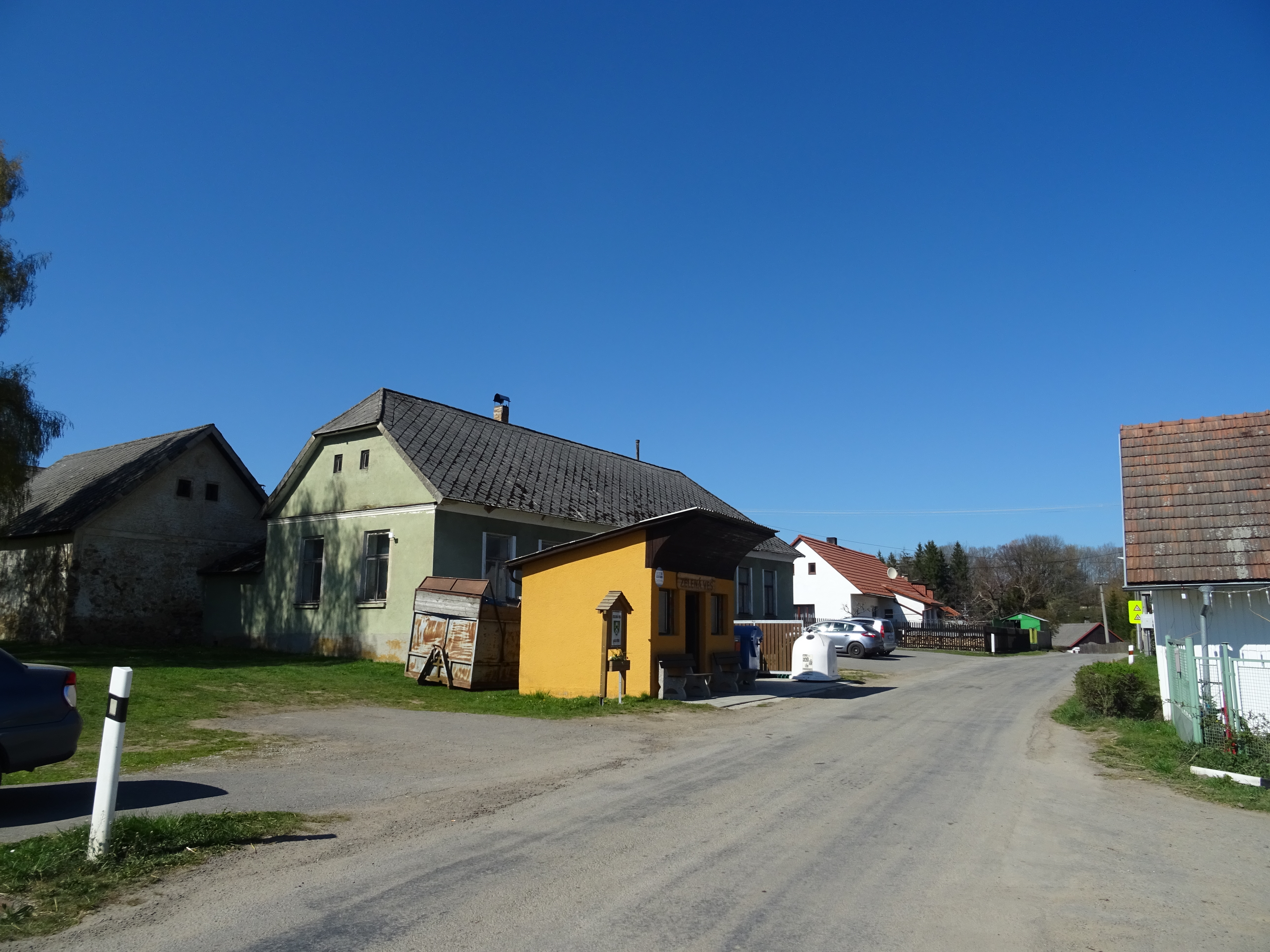 This photograph was created as a part of Wikiexpedition Mladá Vožice, a project supported by Wikimedia Foundation grant.